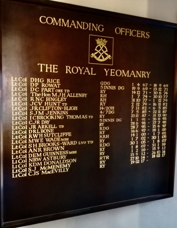 The board displayed at Regimental Headquarters Royal Yeomanry showing the commanding officers of the regiment and their periods of tenure. Photo taken on 11 October 2019. The board had not yet been updated to show the completion of Lt Col MacEvilly's command the commencement of Lt Col Bragg's. Royal Yeomanry